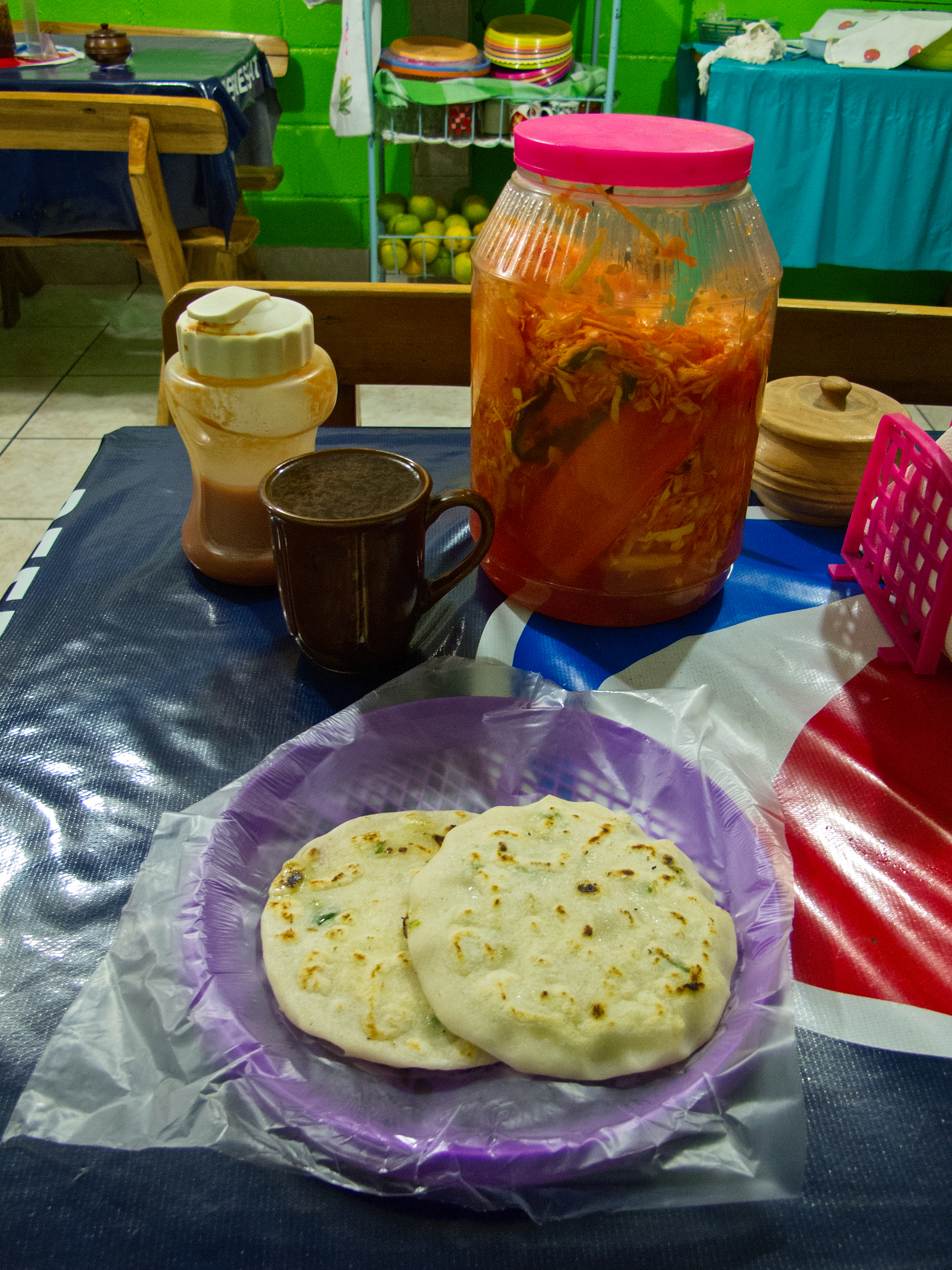 A typical serving of Pupusas in a typical El Salvador pupuseria (here taken on location, in Olocuilta, La Paz, El Salvador). In the background is the Tomato Sauce (L), big jar of Curtido, and a mug of hot chocolate. These are made with rice flour (arroz) which is typical of Olocuilta. Little wooden container in the back (for those who really want to know) has sugar for coffee.